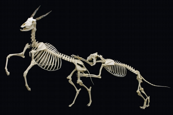 African Lion and Eland Antelope skeleton diorama to be displayed in the Museum of Osteology. Photo by Jay Villemarette